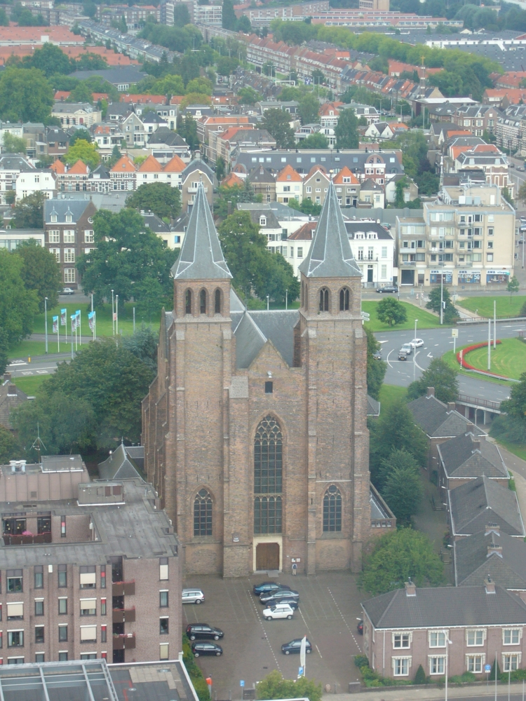 Arnhem, Netherlands (a view from the cathedral tower)